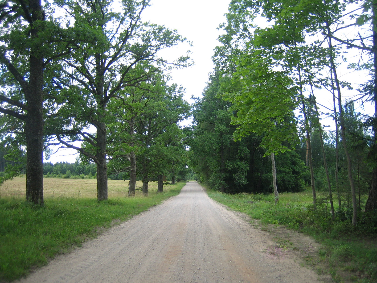 Oak (Quercus robur) alley in Rõka village